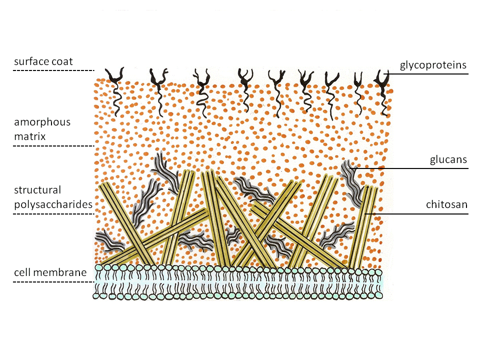 Figure1. Cell wall structure of Fungi